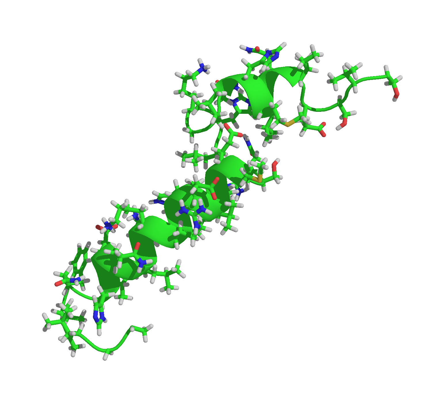 3d structure of parathyroid hormone (PTH) fragment 1-39 from PDB 1BWX. Ref: U.C.Marx et al. (2000). Solution structures of human parathyroid hormone fragments hPTH(1-34) and hPTH(1-39) and bovine parathyroid hormone fragment bPTH(1-37).. Biochem Biophys Res Commun, 267, 213-220. PMID 10623601